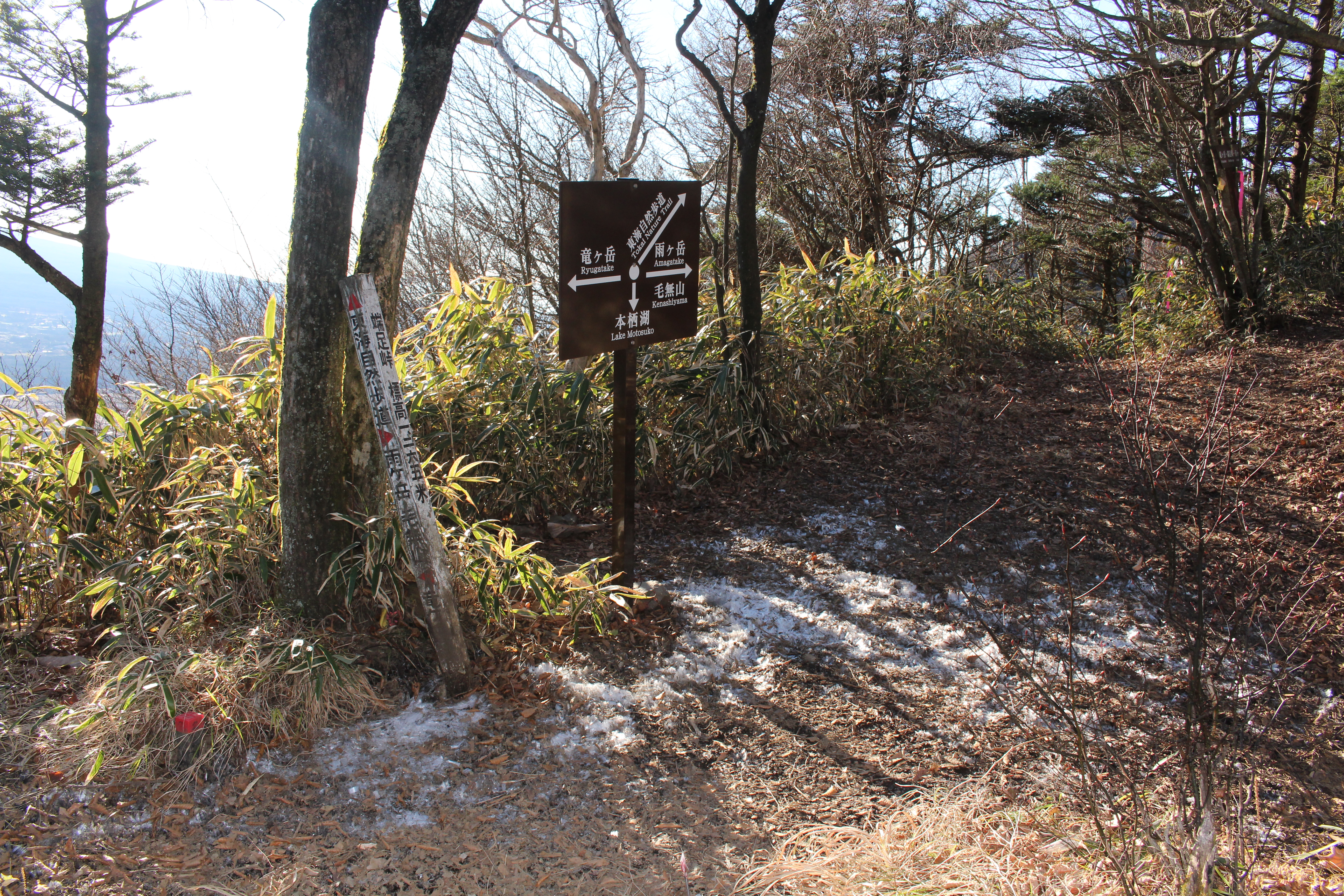 Hashita Pass on Tenshi Mountains between Mount Ryu and Mount Ama in Yamanashi prefecture and Shizuoka prefecture, Japan.